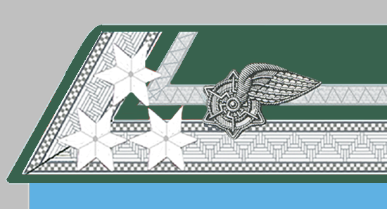 collar badge of the k.u.k Railway-Regiment / 1st Sergeant